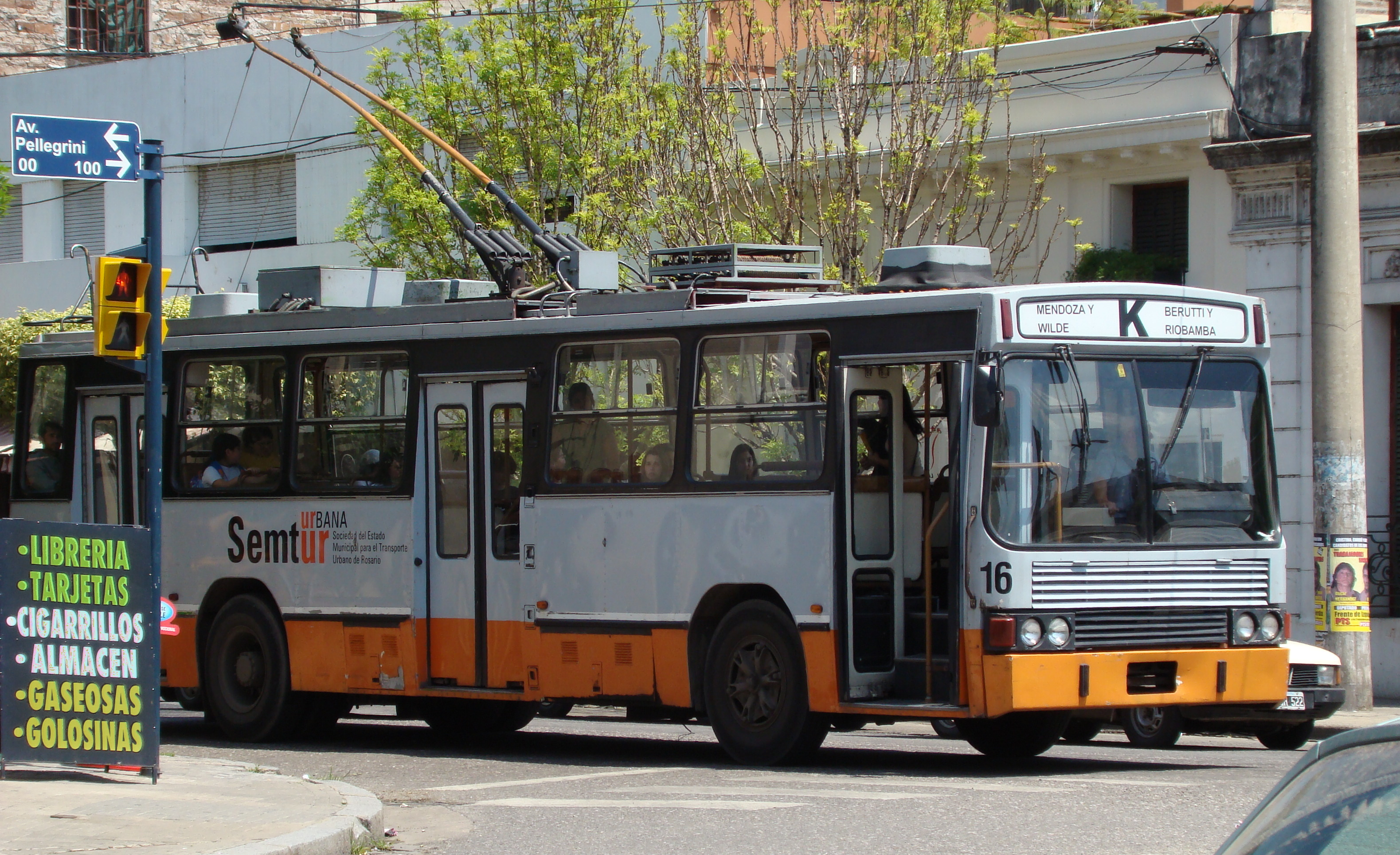 Trolleybus in Rosario, Argentina. This is the K line, the only one still in circulation, at the corner of Pellegrini Avenue and Necochea St. The trolleybus is run by a municipal state-managed company (SEMTUR).